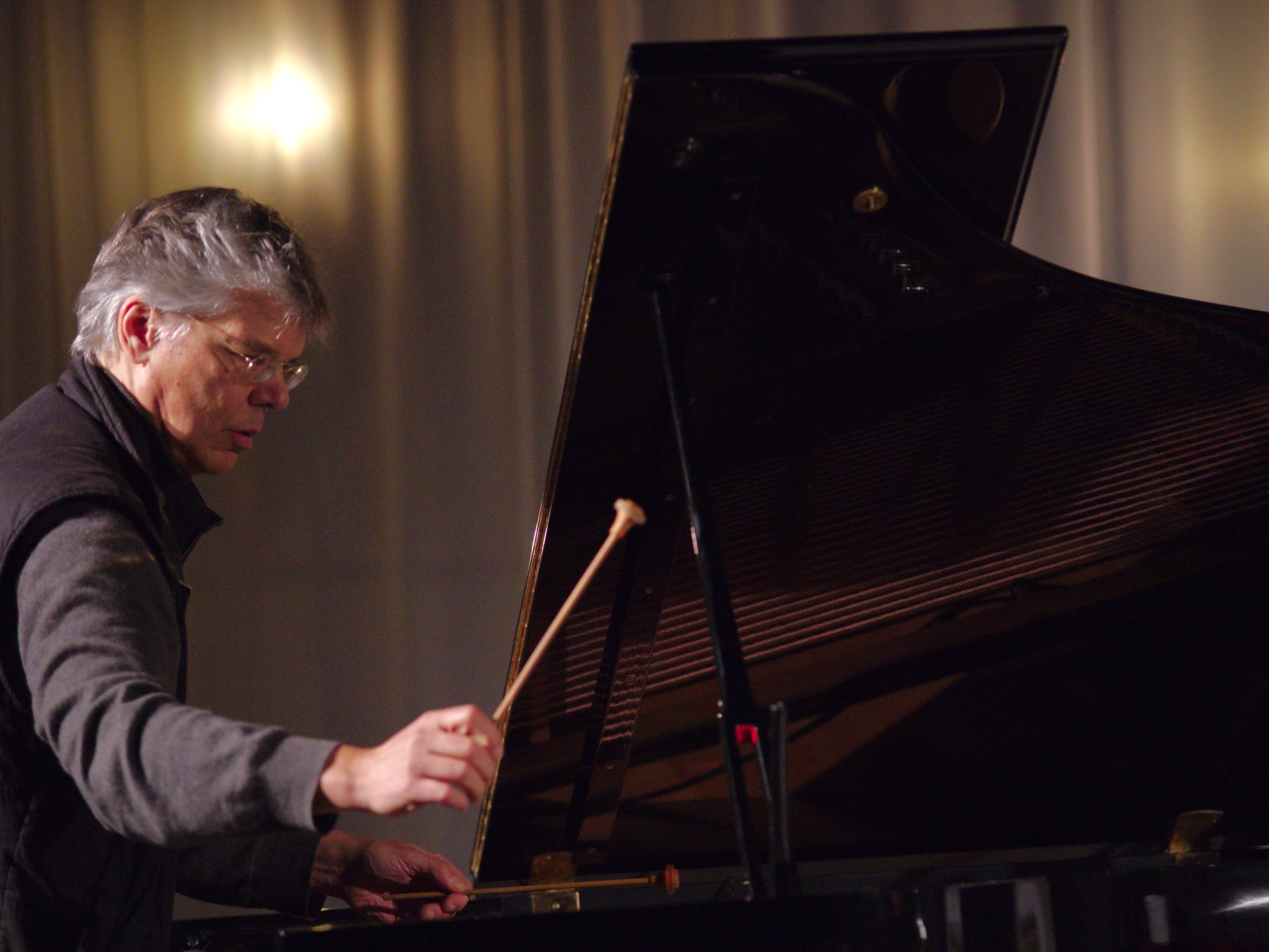 Martin Theurer (piano), live at Platzhirschfestival Duisburg 2018, performing with Paul Hubweber (trombone) and Philippe Micol (saxophone).